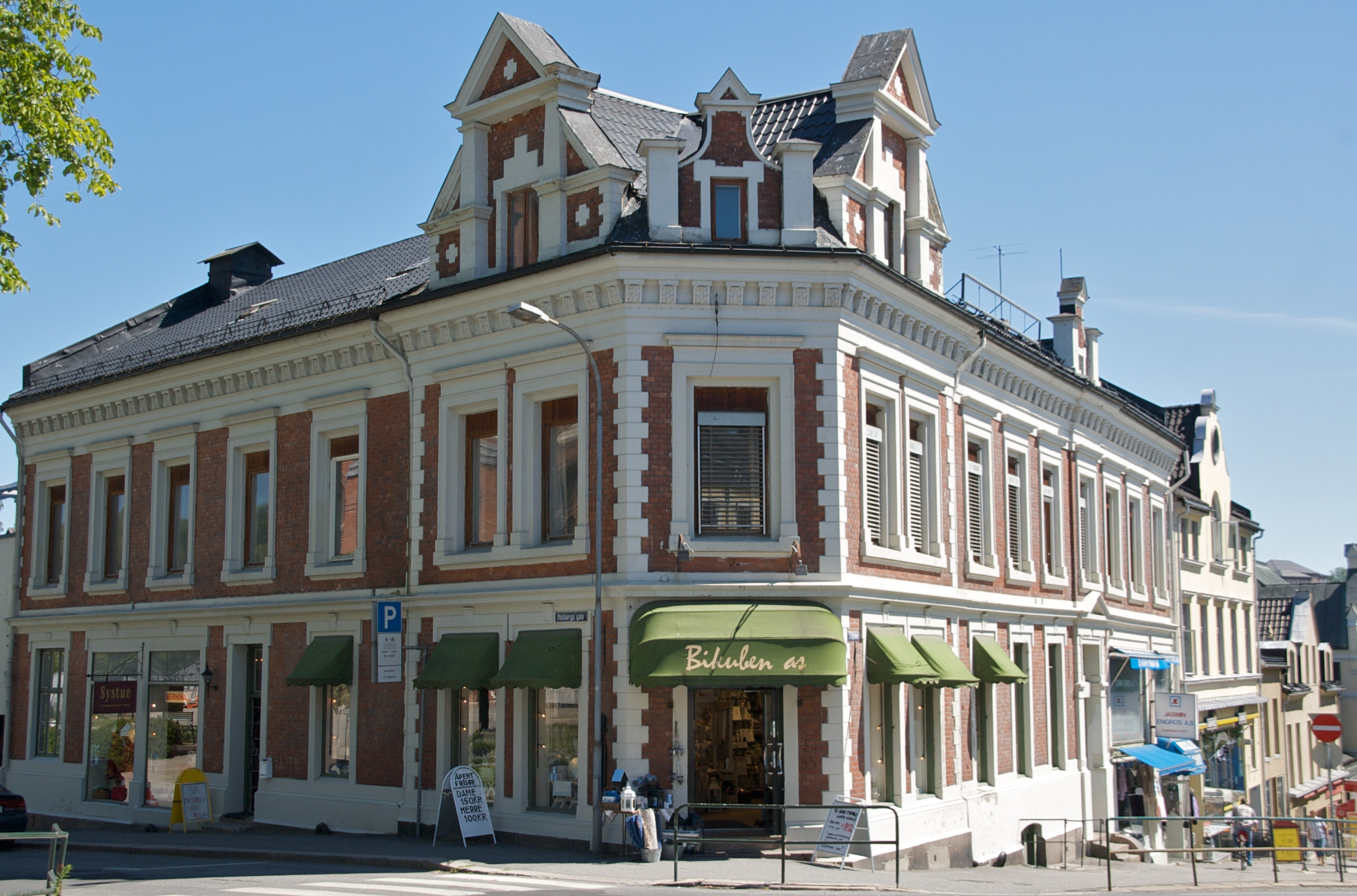 Building in Skien, Norway. Address: Liegata 6.